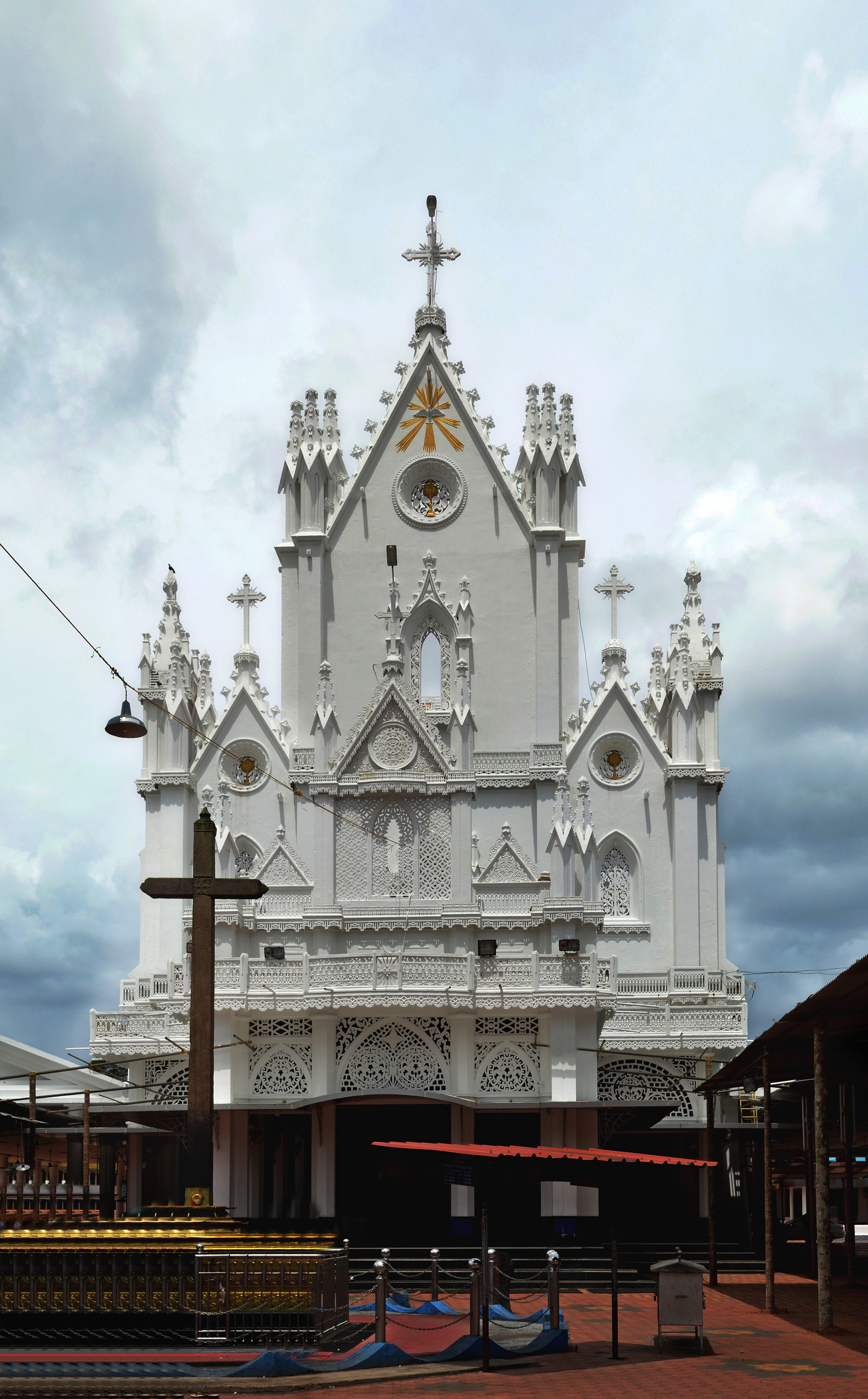 Manarcad Marthamariam Cathedral